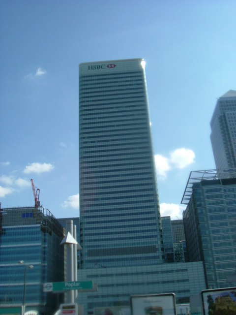 HSBC building - Isle of Dogs, E14 I don't care if it's NOW pretentiously known as Canary Wharf, I'll always know and refer to the area as the Isle of Dogs. The HSBC building, at 8 Canada square, the 2nd tallest in London & the UK at 655 feet. Taken from the platform of Poplar DLR station where you can just make out the station sign at the bottom of the picture.